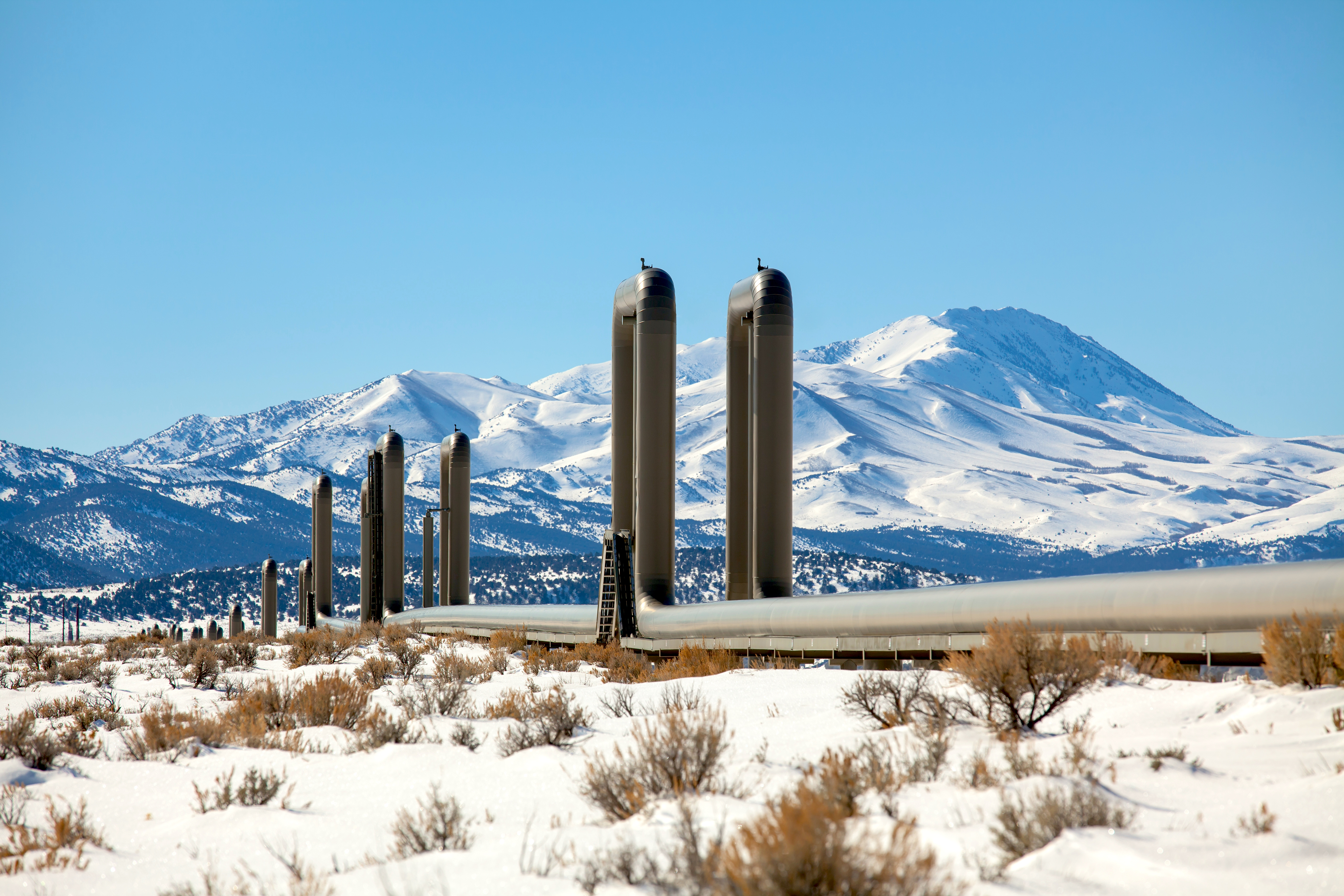 There are currently 18 operating geothermal power plants on BLM Nevada lands, with a total generating capacity of 500 megawatts of power. McGinness Hills is the largest geothermal plant in Nevada and currently produces 100 megawatts of power (currently BLM is reviewing a proposed expansion to 150 MW). Geothermal is heat extracted from deep in the Earth, it's a baseload (24 x 7 x 365, rain or shine) renewable energy resource that has enormous potential for continued development in Nevada.